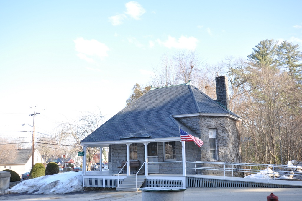 Entry house and office in Blossom Hill and Calvary Cemeteries, Concord, New Hampshire